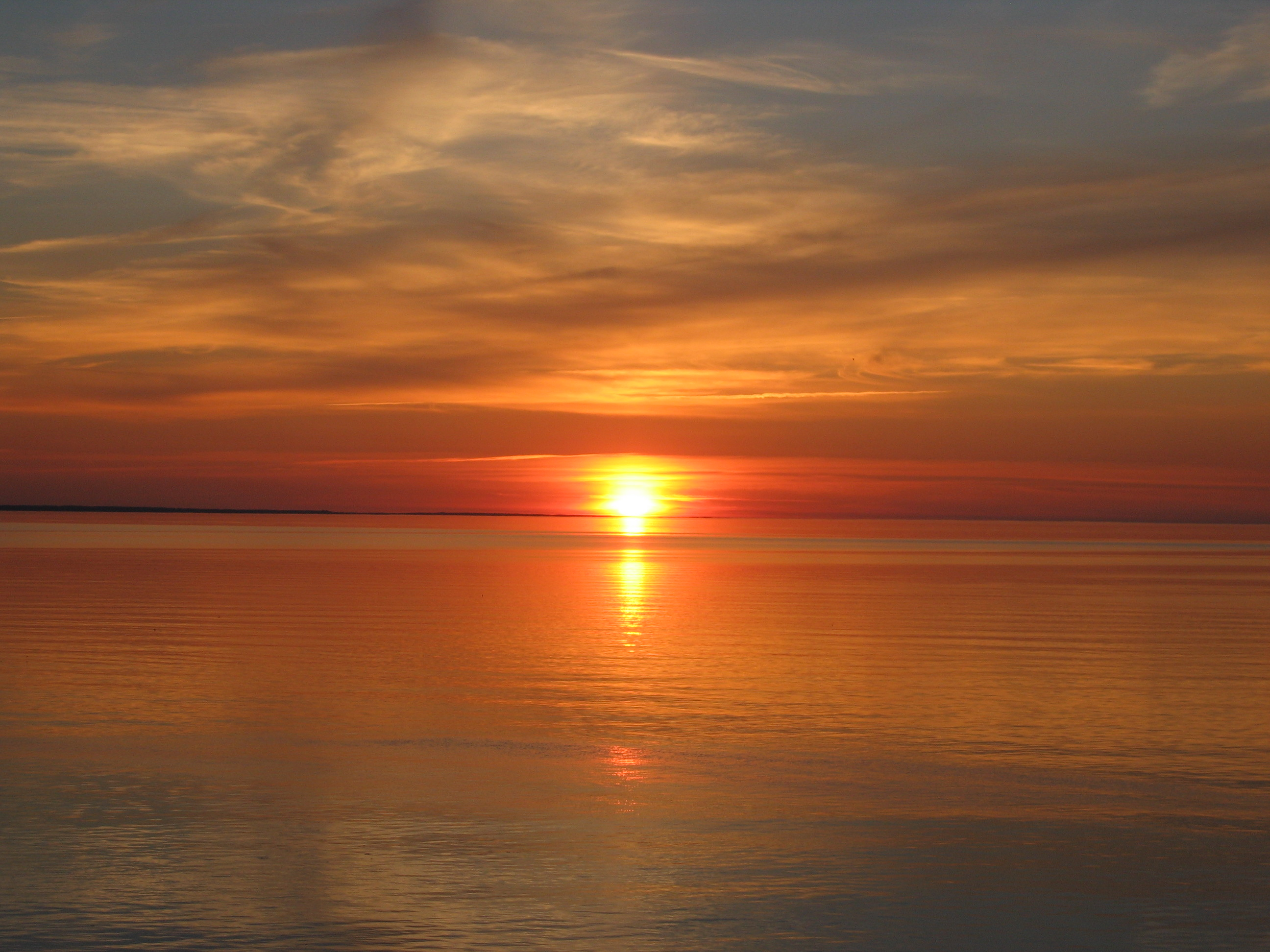 Actually, this is a picture of a sunset that I took a few summers ago. It's really quite pretty, I think.